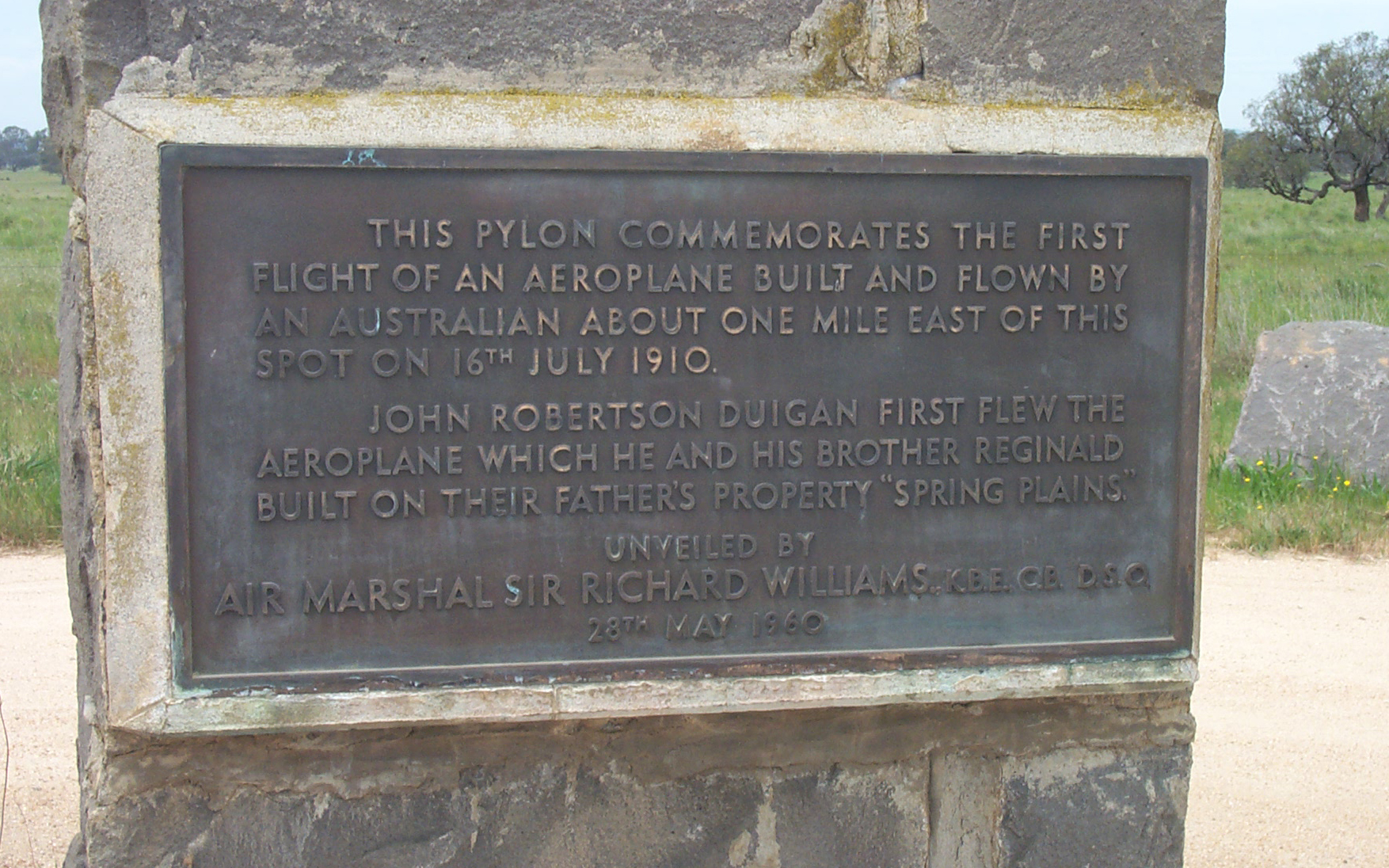 This plaque is installed on the memorial commemorating the first Australian-built aeroplane which first flew in 1910. The plaque was unveiled in 1960.